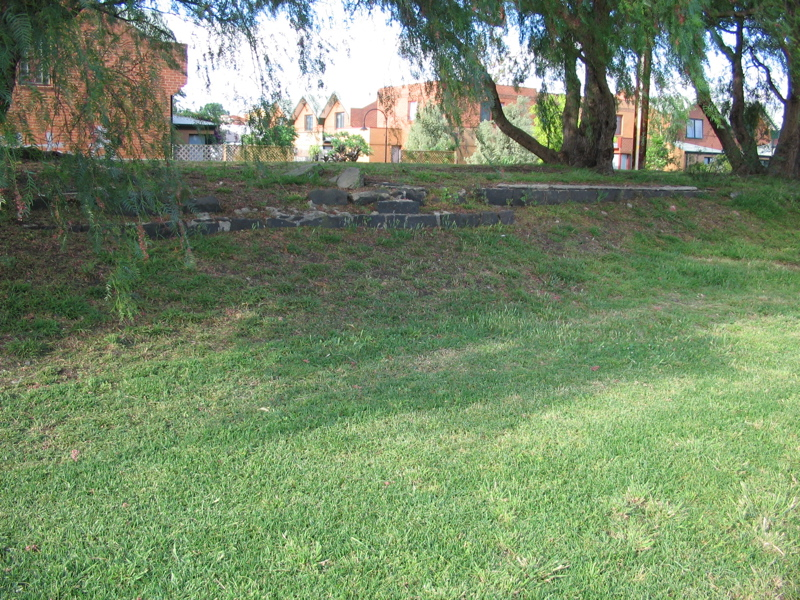 Remains of former North Fitzroy Railway Station, part of the Inner Circle Line, located in Fitzroy North, Victoria, Australia.